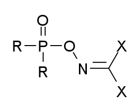 General form of Novichok